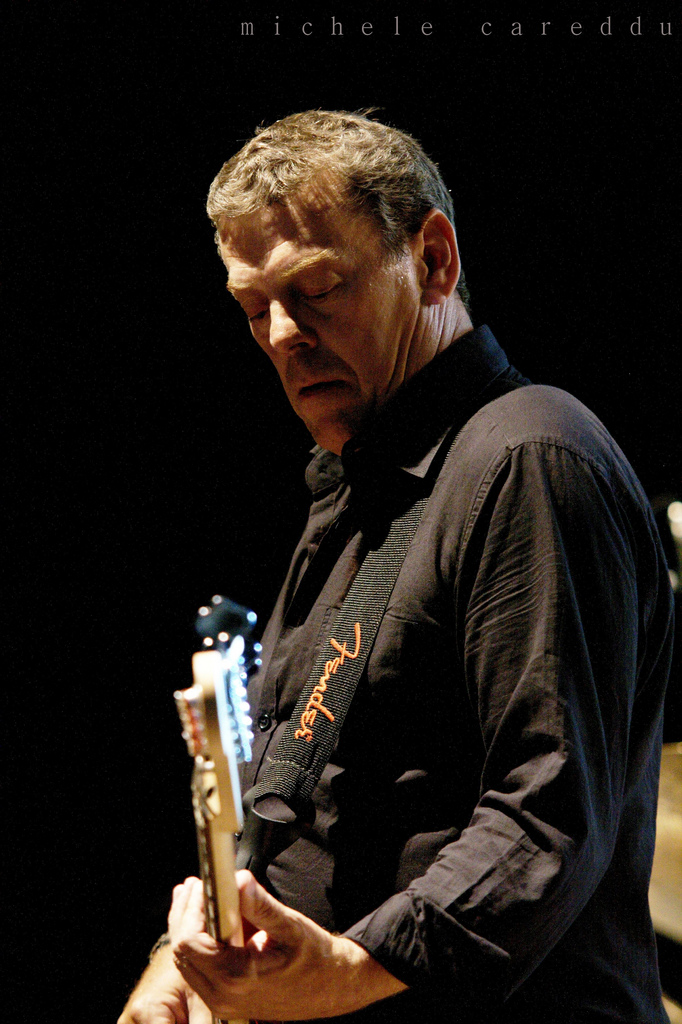 Gerry McAvoy at Aglientu Summer Festival near Sardinia